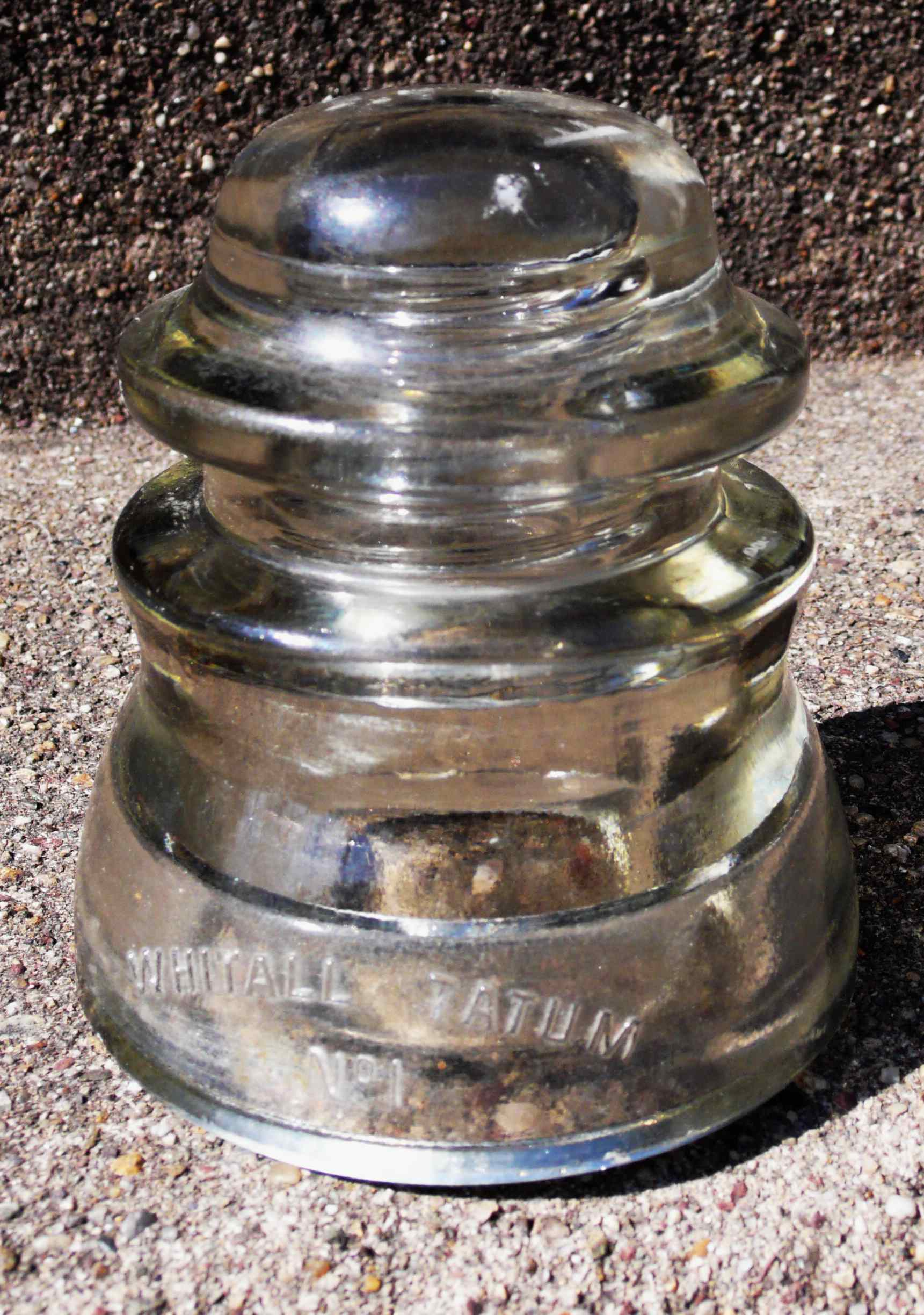 I took this photo. Author = rgsmith2b